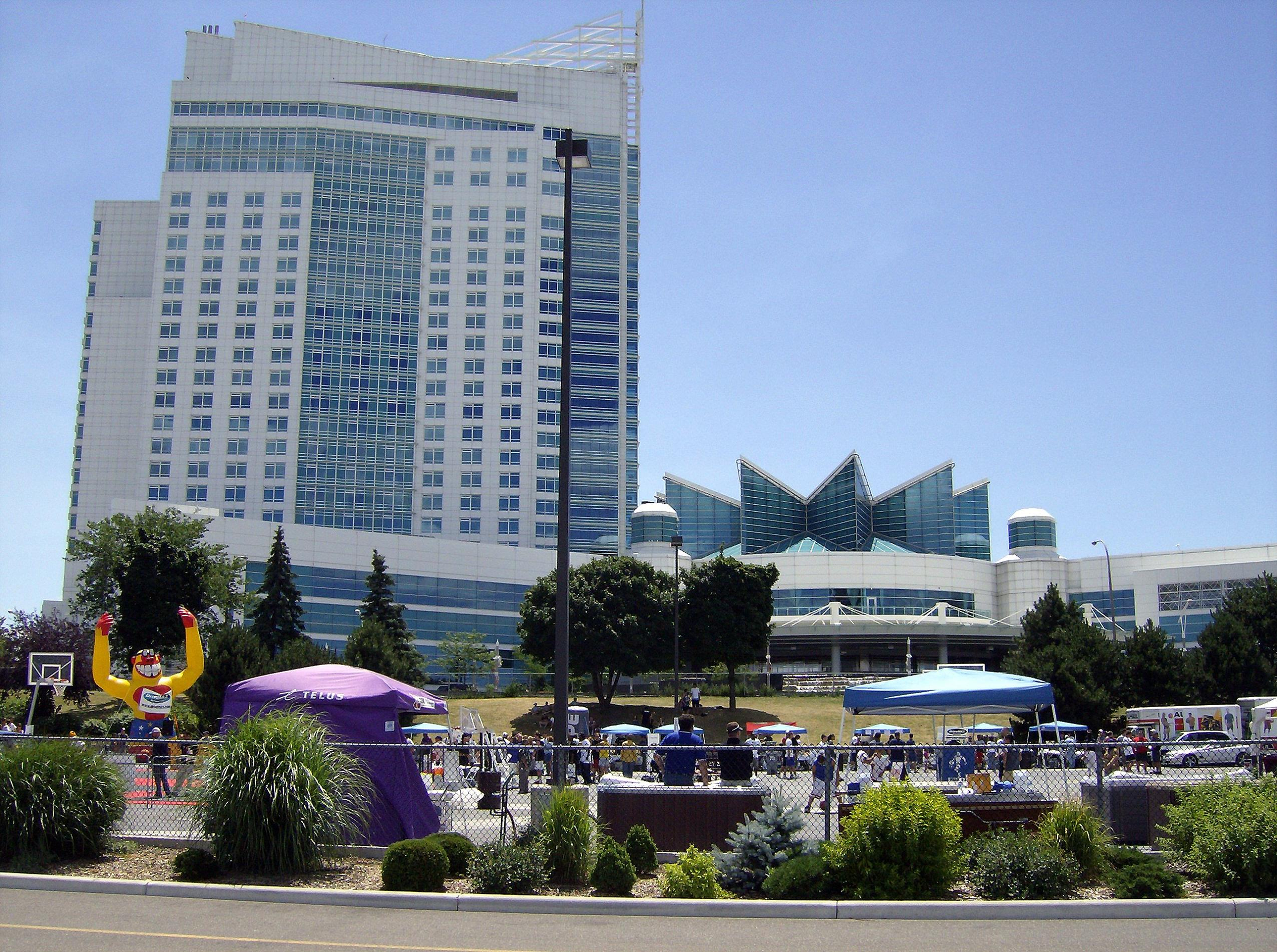 Windsor Ontario Paviollion hosts 3 on 3 tournament